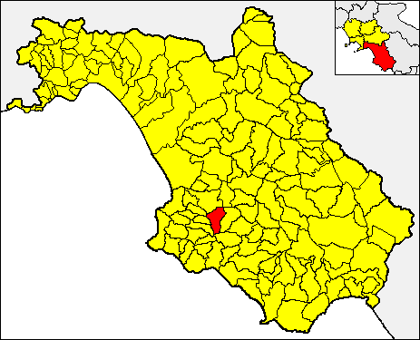 Locator map of the municipality of Perito (red) within the Province of Salerno